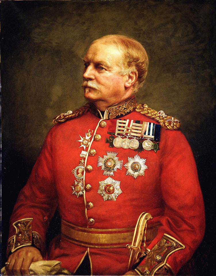 Major General Herbert Taylor MacPherson VC, 1886 (c). Oil on canvas by Edmund Havell Jnr and Edward Deanes, 1889. MacPherson (1827-1886) received the Victoria Cross during the Indian Mutiny (1857-1859) for setting an example of heroic gallantry to the men of his regiment, the 78th (Highland) Regiment of Foot (Ross-shire Buffs), at Lucknow on 25 September 1857, at the period of the action in which they captured two brass 9-pounders at bayonet point. NAM Accession Number NAM. 1995-04-65-1 Acknowledgement Gift from Mrs Nancy Clare de Ferry Foster, 1995 Copyright/Ownership National Army Museum, London Location National Army Museum, Study collection Object URL